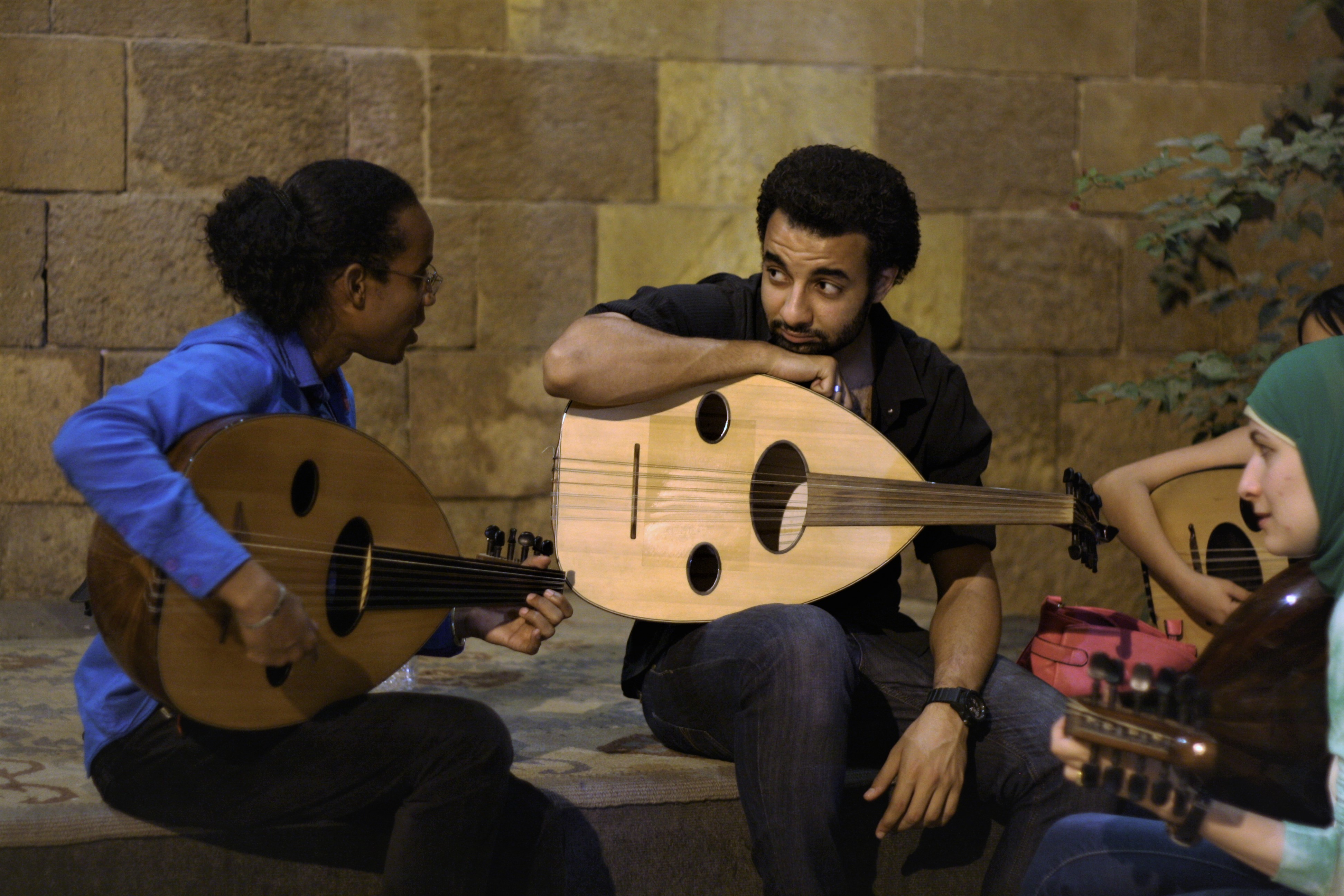 This is an image from Egypt